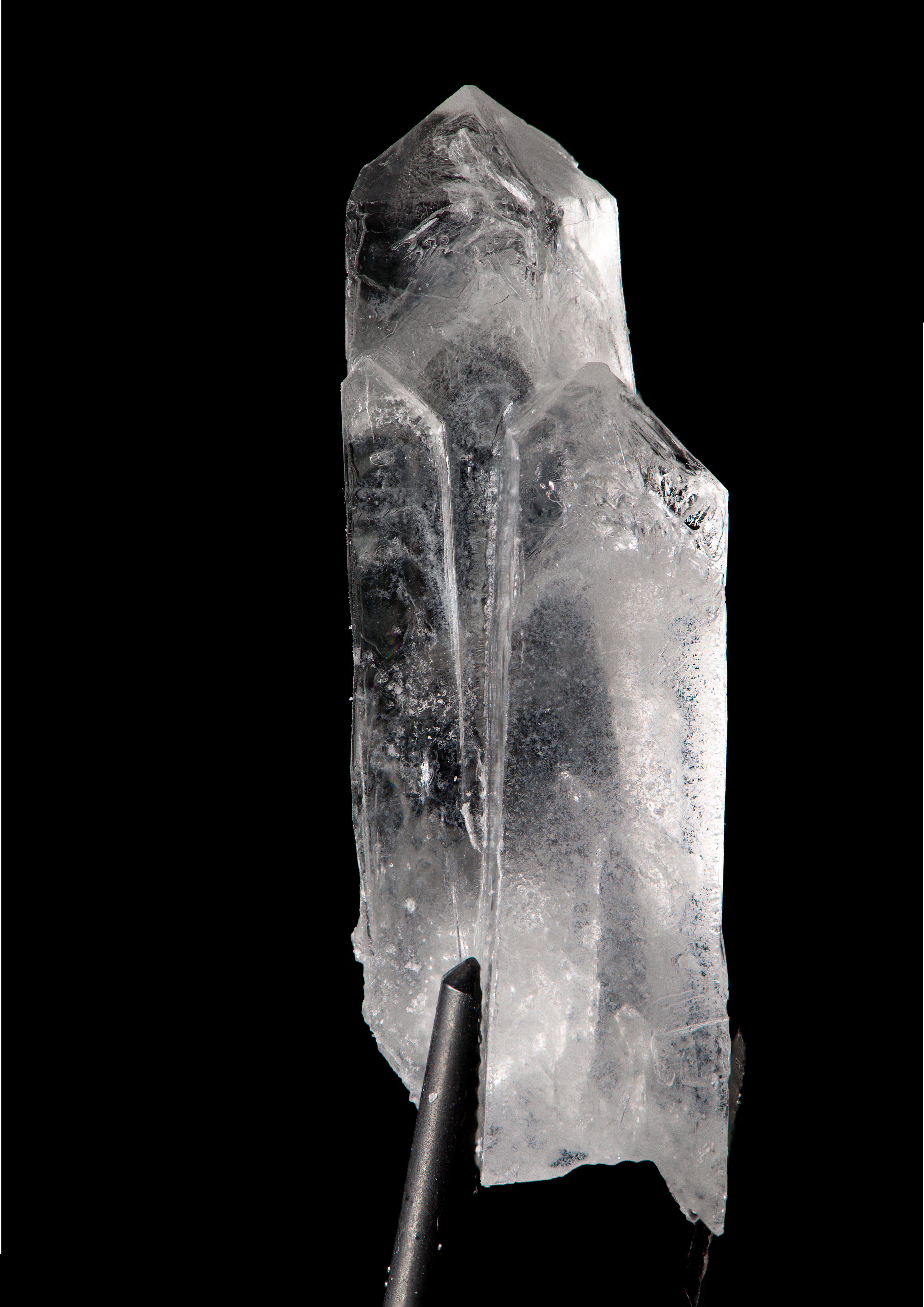 A small cluster of Ammonium Dihydrogen Phosphate crystals